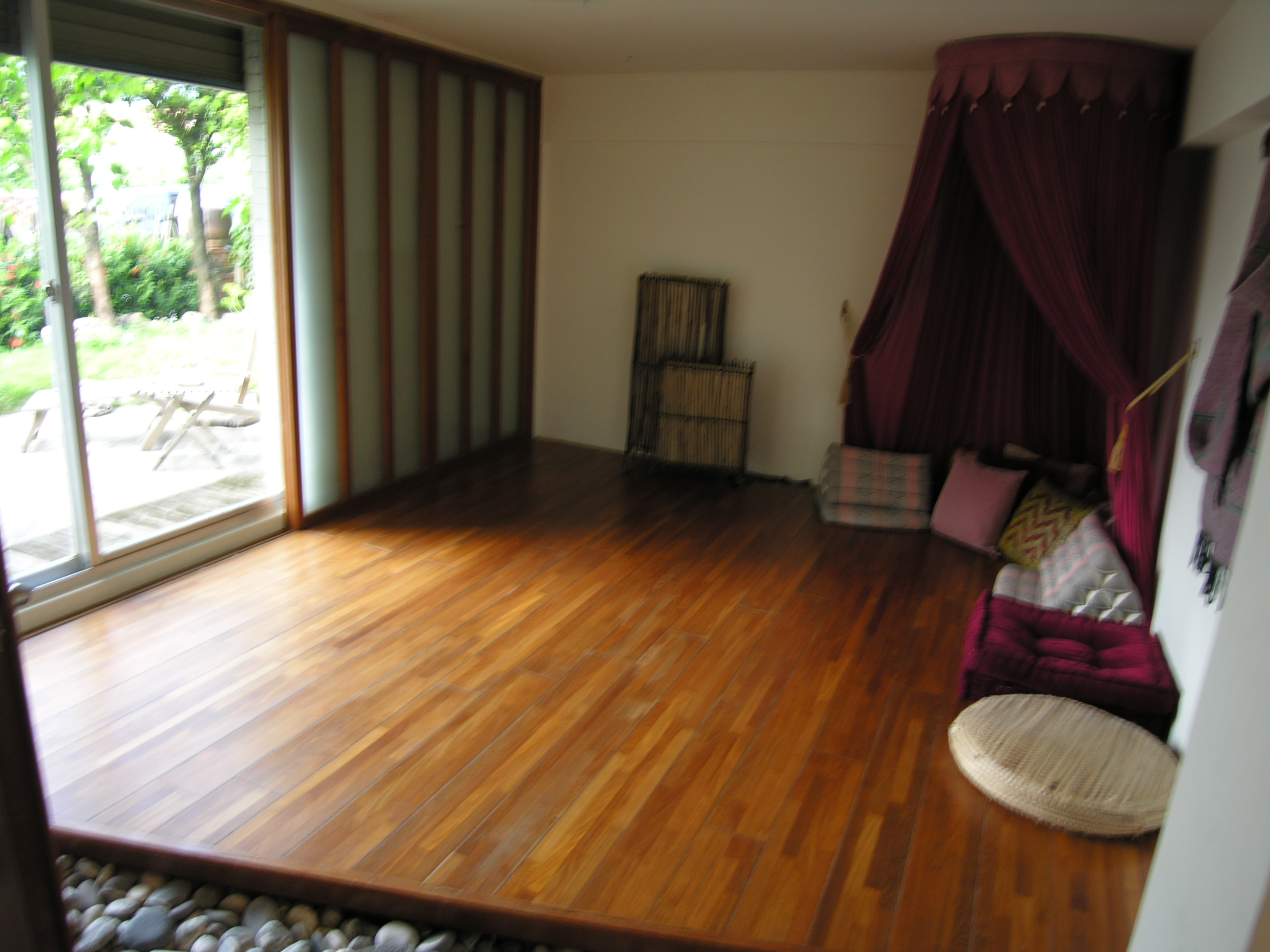 Washitsu in Taiwan